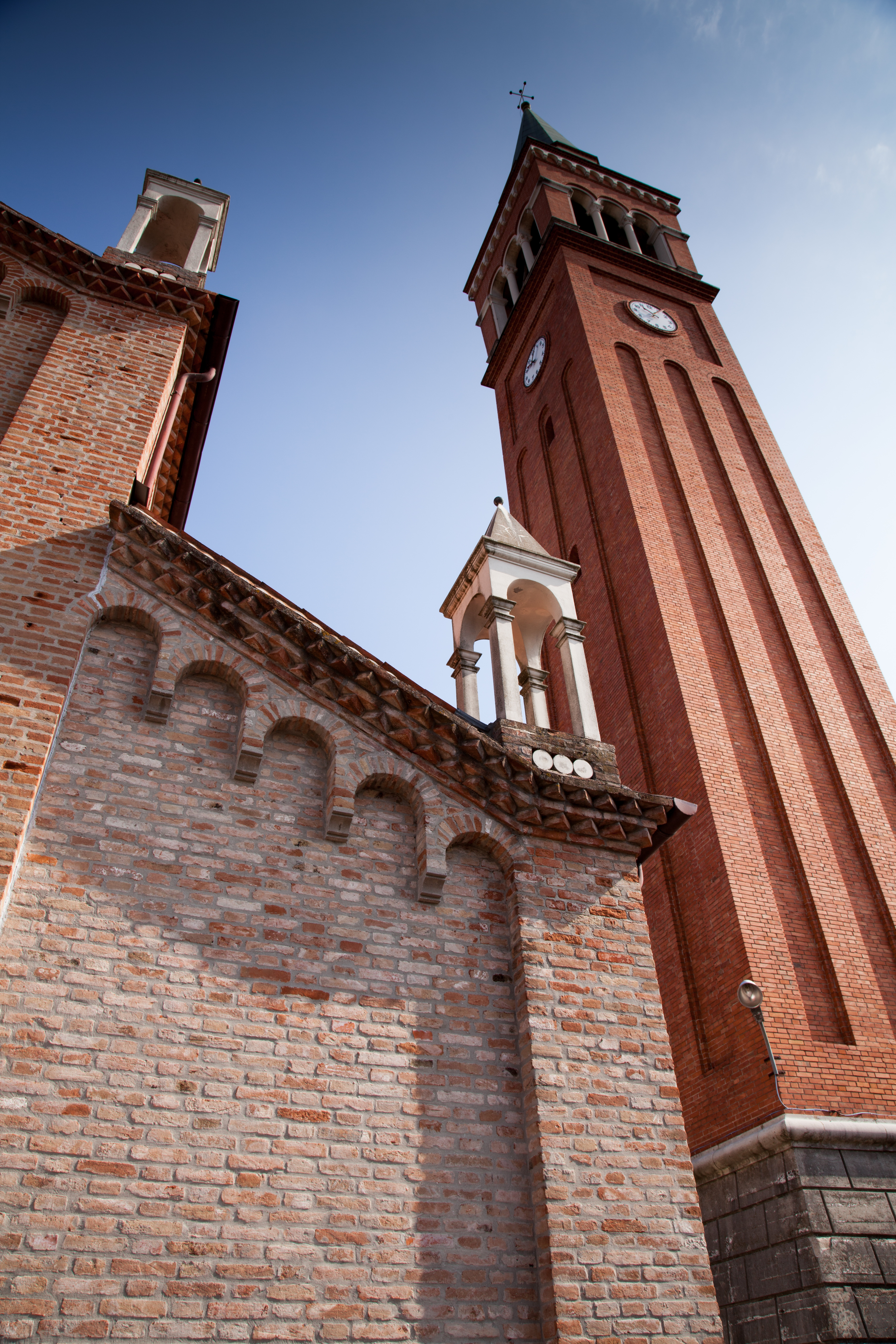 Clock tower od the church of La Salute (Comune di Caorle, Veneto)